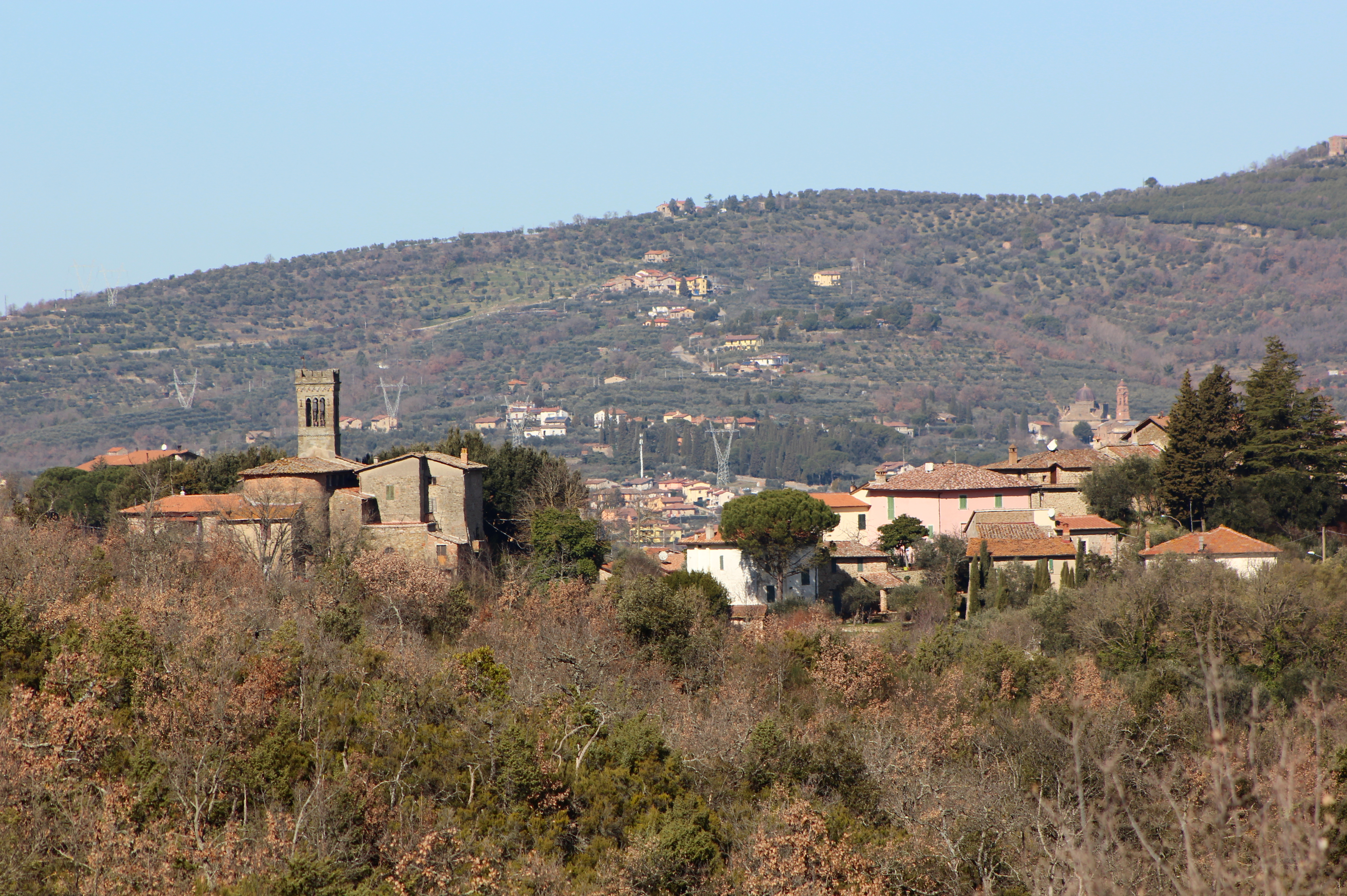 Collebaldo, hamlet of Piegaro, Province of Perugia, Umbria, Italy